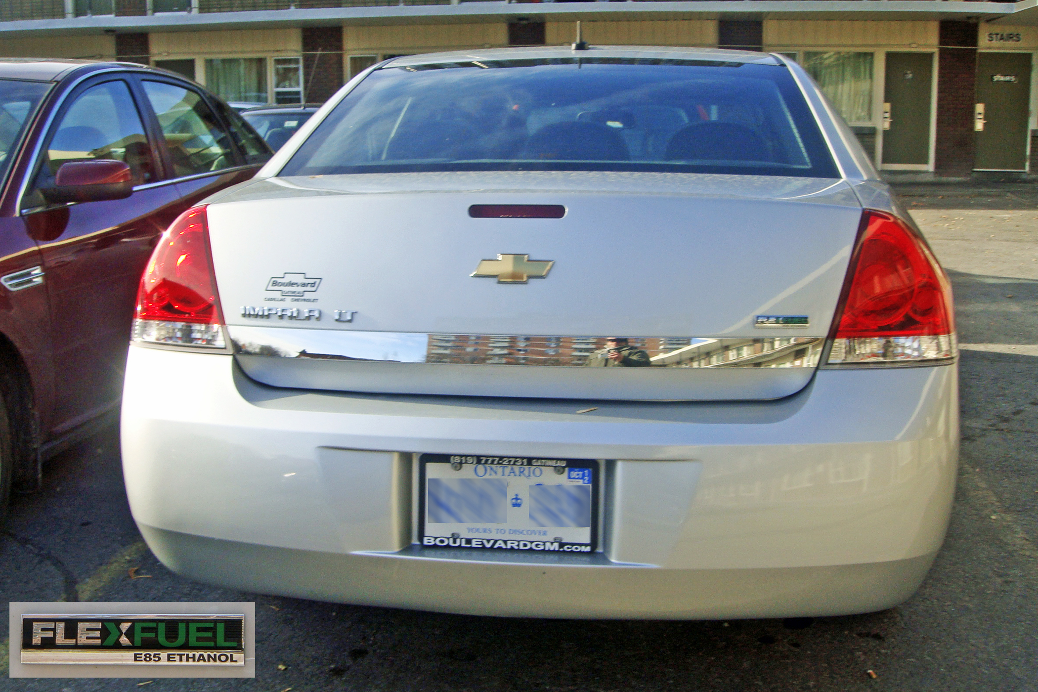 E85 flexible-fuel Chevrolet Impala, Ottawa, Canada. Flex-fuel badge inset edit from the same vehicle